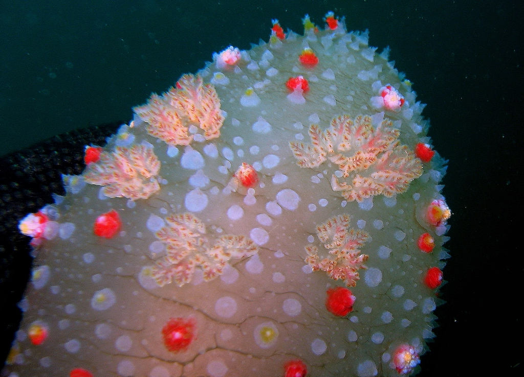 The close shot of Kalinga_ornata's naked gill. This photo was taken by Vincent C. Chen, one of the contributors to EZDive magazine, at a famous diving spot named 82.5K located at northeast coast TAIWAN.